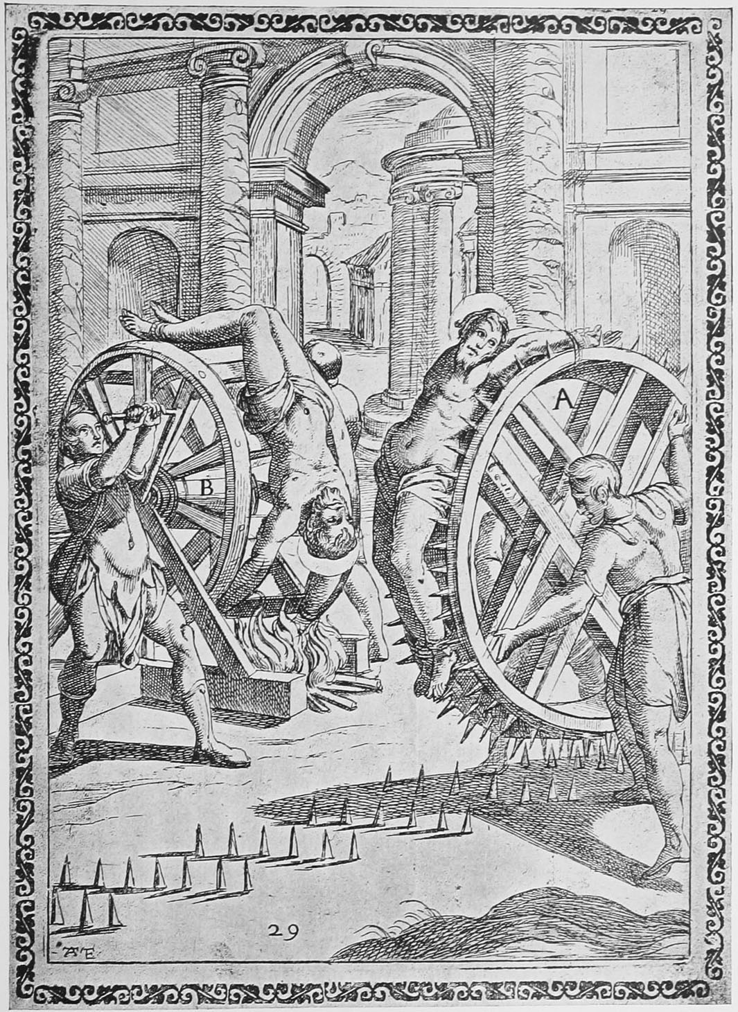 Woodcut by Tempesta showing a torture/execution scene of martyrs from Gallonio's "Tortures and Torments of the Christian Martyrs"